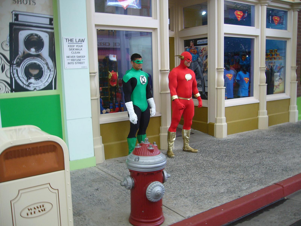 Flash and Green Lantern stand around outside the Daily Planet shop at Warner Bros. Movie World.